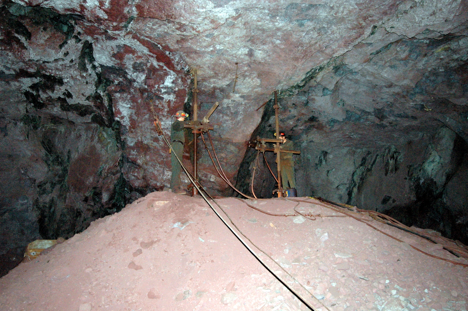 A miner (example) operating an air drill in a raise on the 27th level of Soudan Mine. An example of horizontal cut and fill mining.